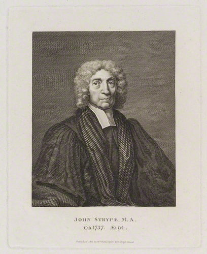 Portrait of John Strype (1643–1737), English clergyman and historian.